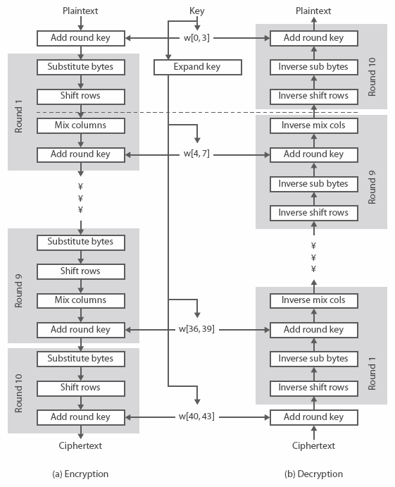 Шифрлэх үйл явц